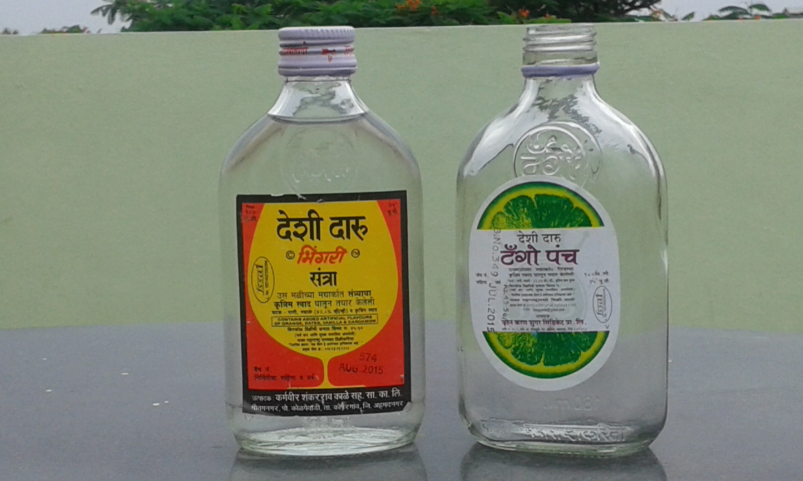 bottles of desi daru